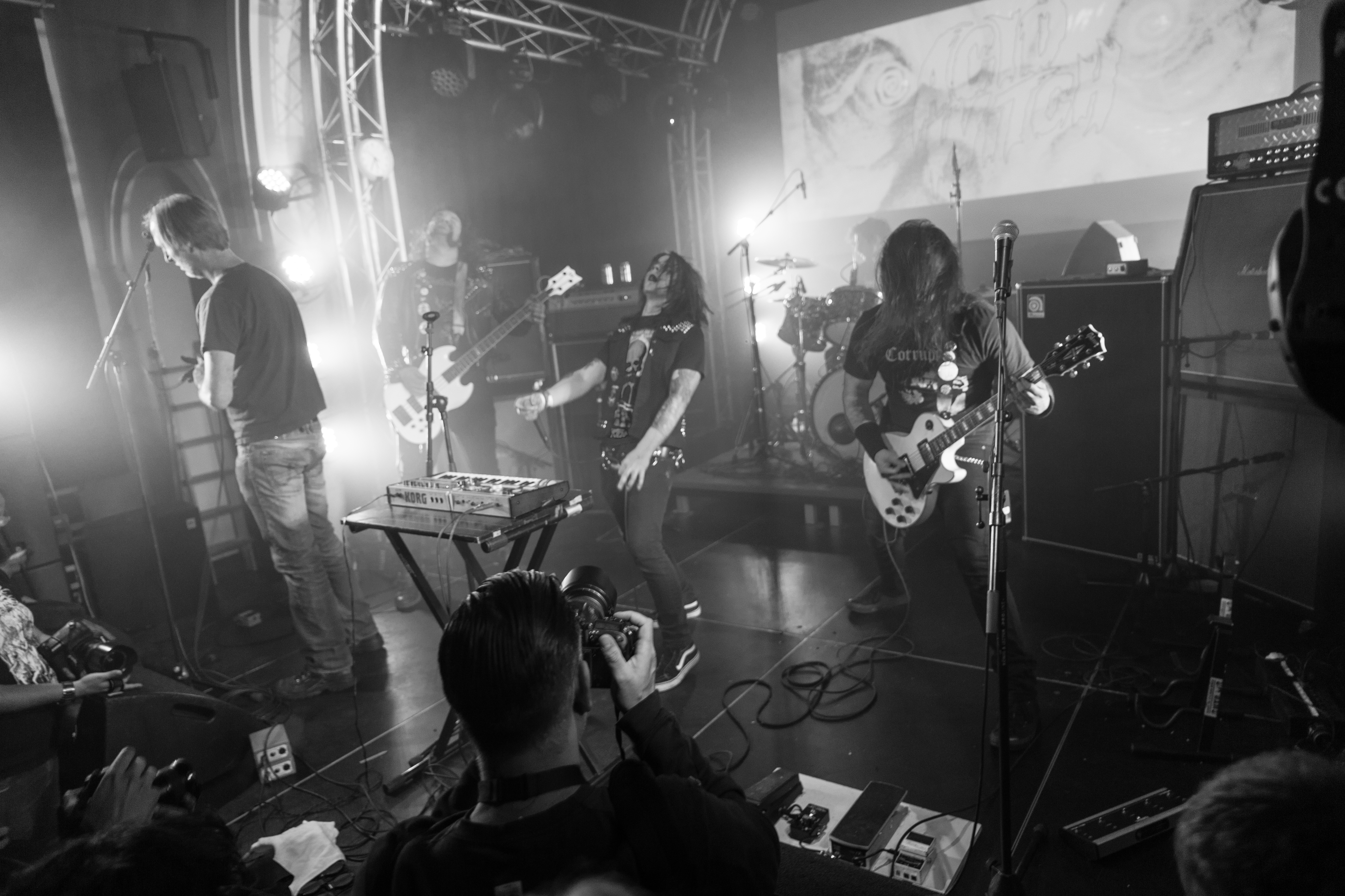 Acid Witch performing at Roadburn Festival, april 2015